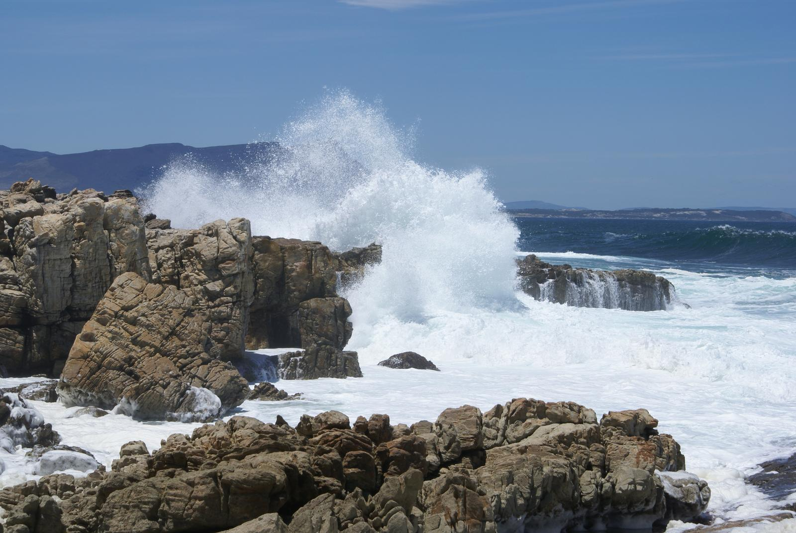 Waves at Kleinmond Nature Reserve